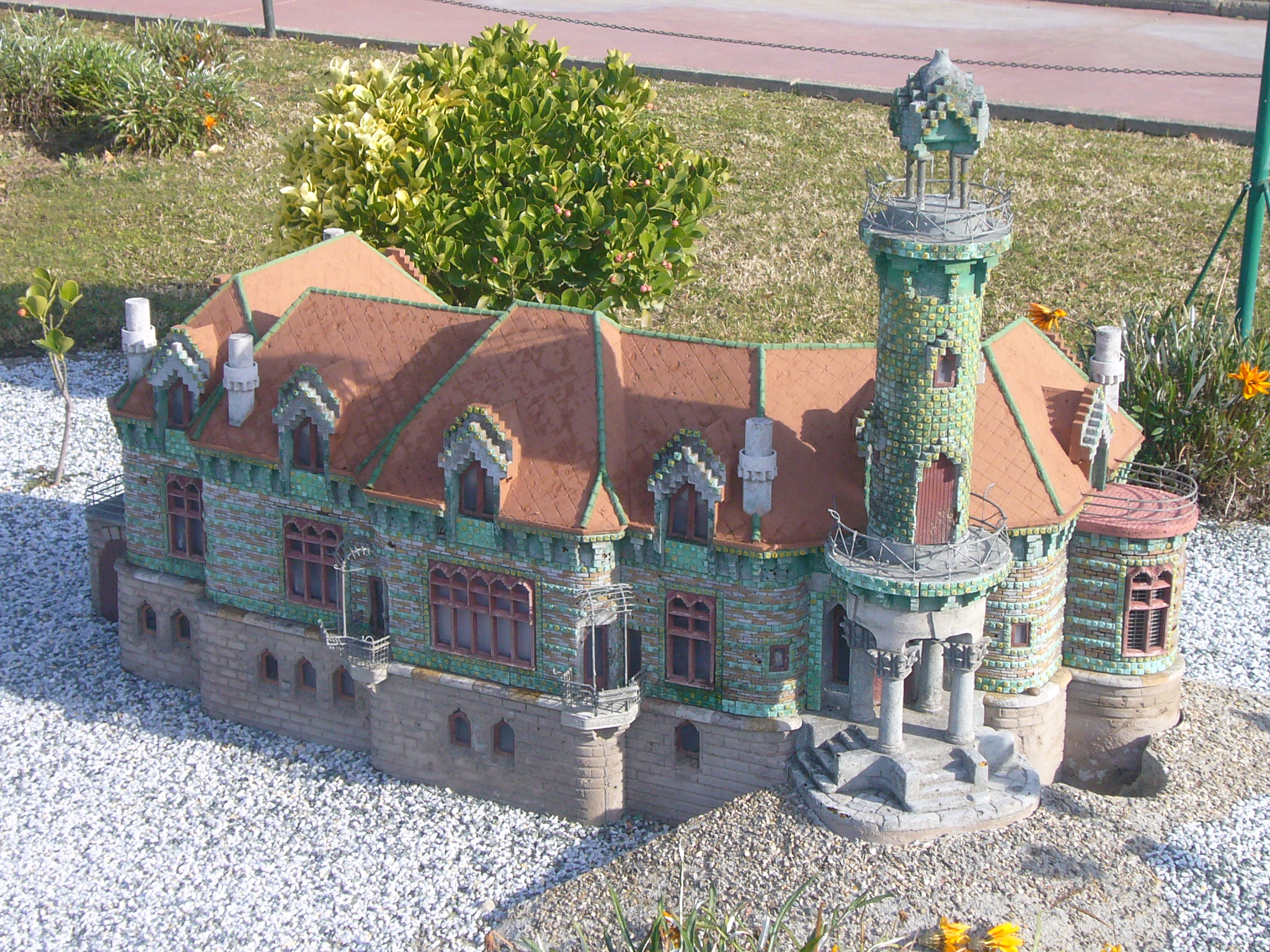 Scale model at the "Catalunya en Miniatura" miniature park : El Capricho, building from Antoni Gaudí located in Comillas